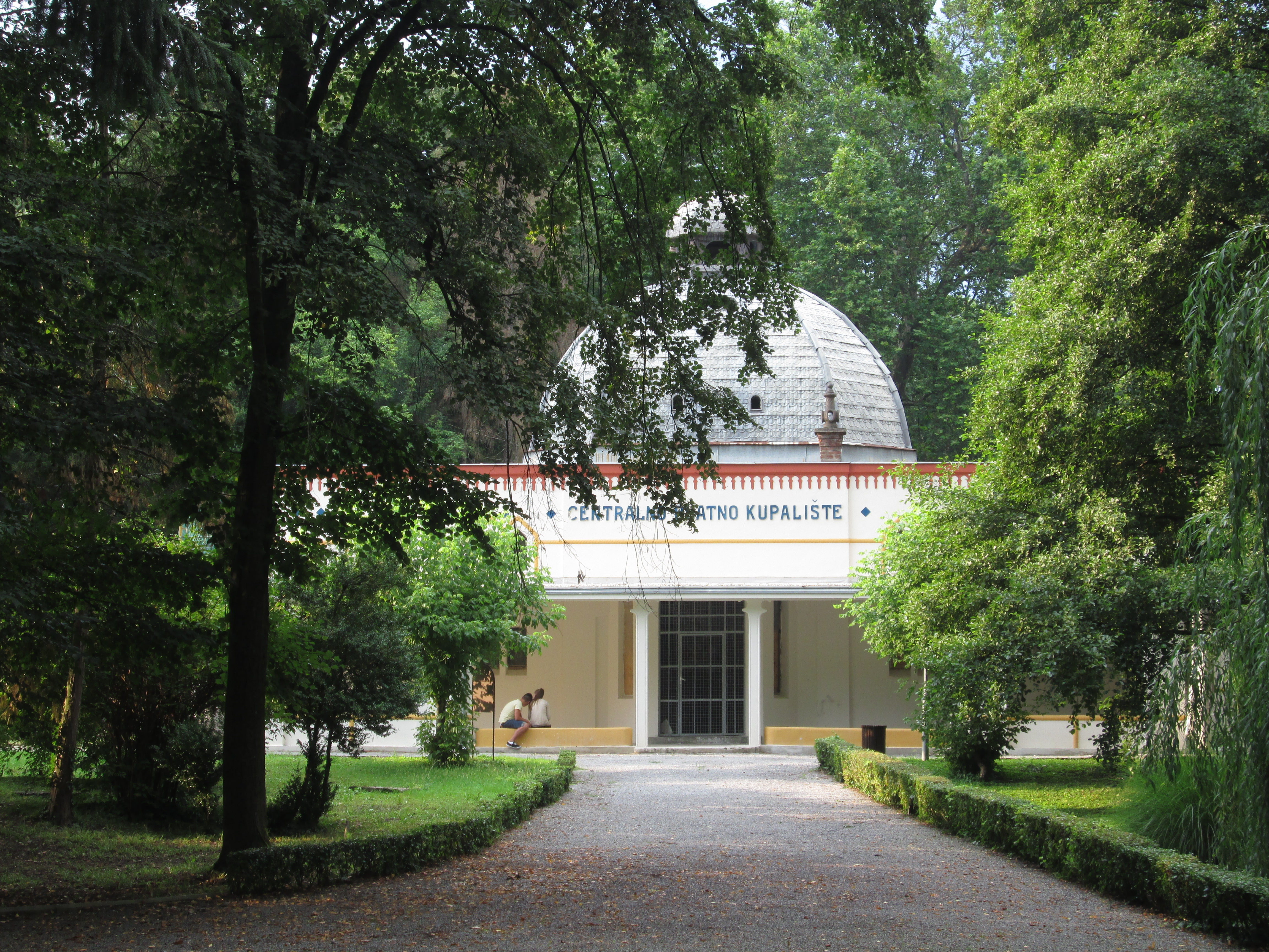 Daruvar Spa in Croatia